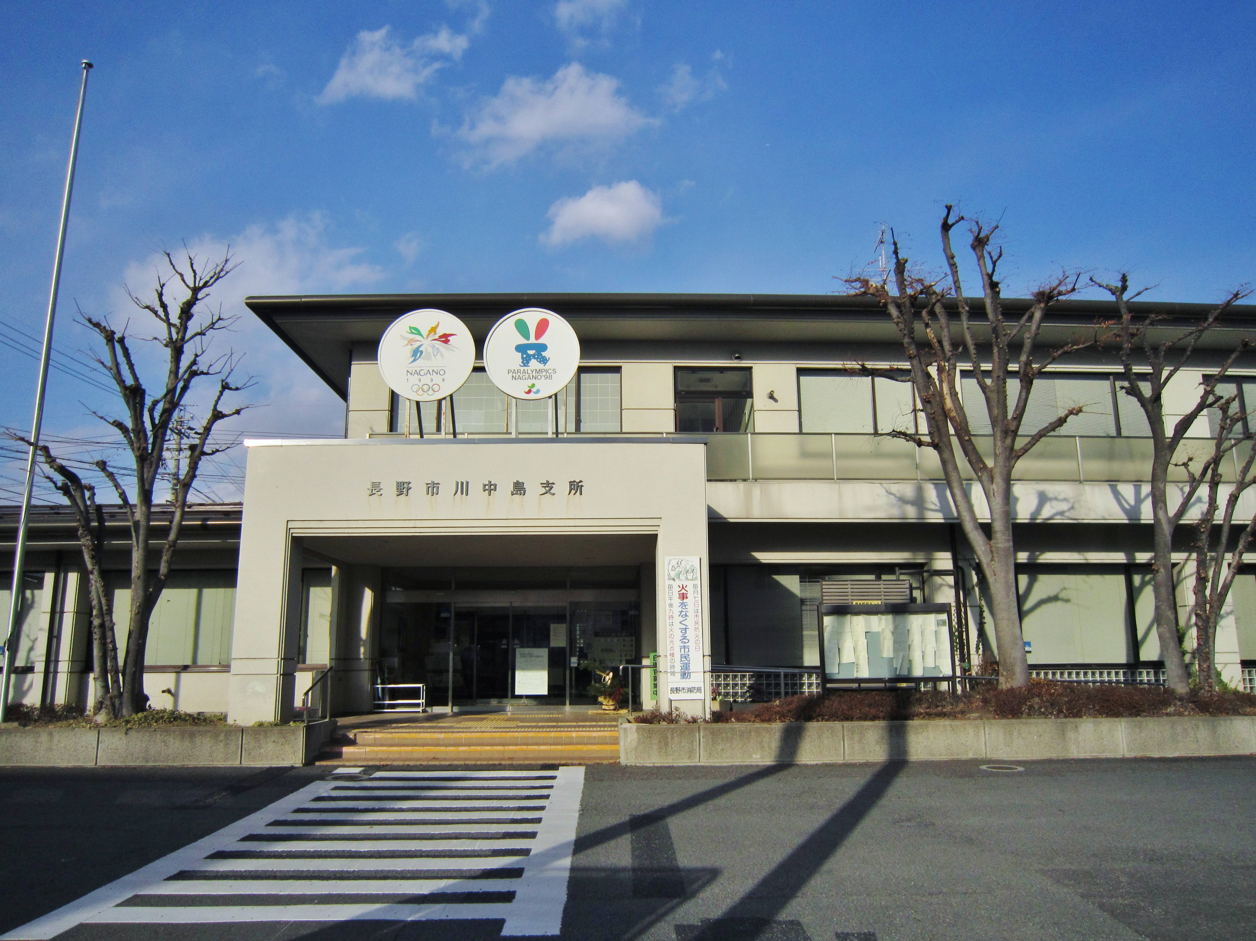 Nagano city Kawanakajima branch office.